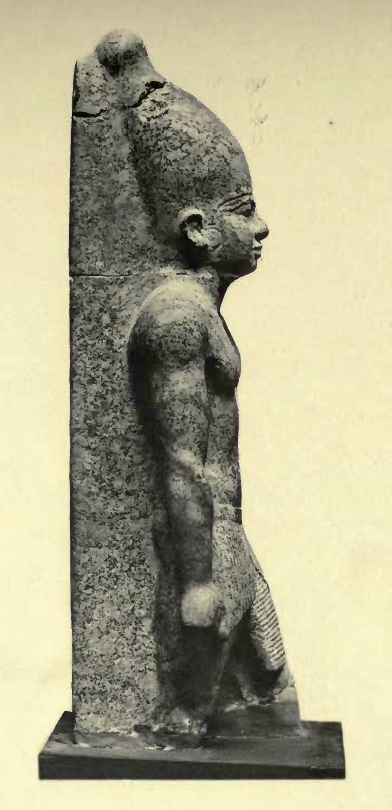 Statue of King Teti found near his pyramid at Saqqara; Egyptian Museum, Cairo (JE 39103)